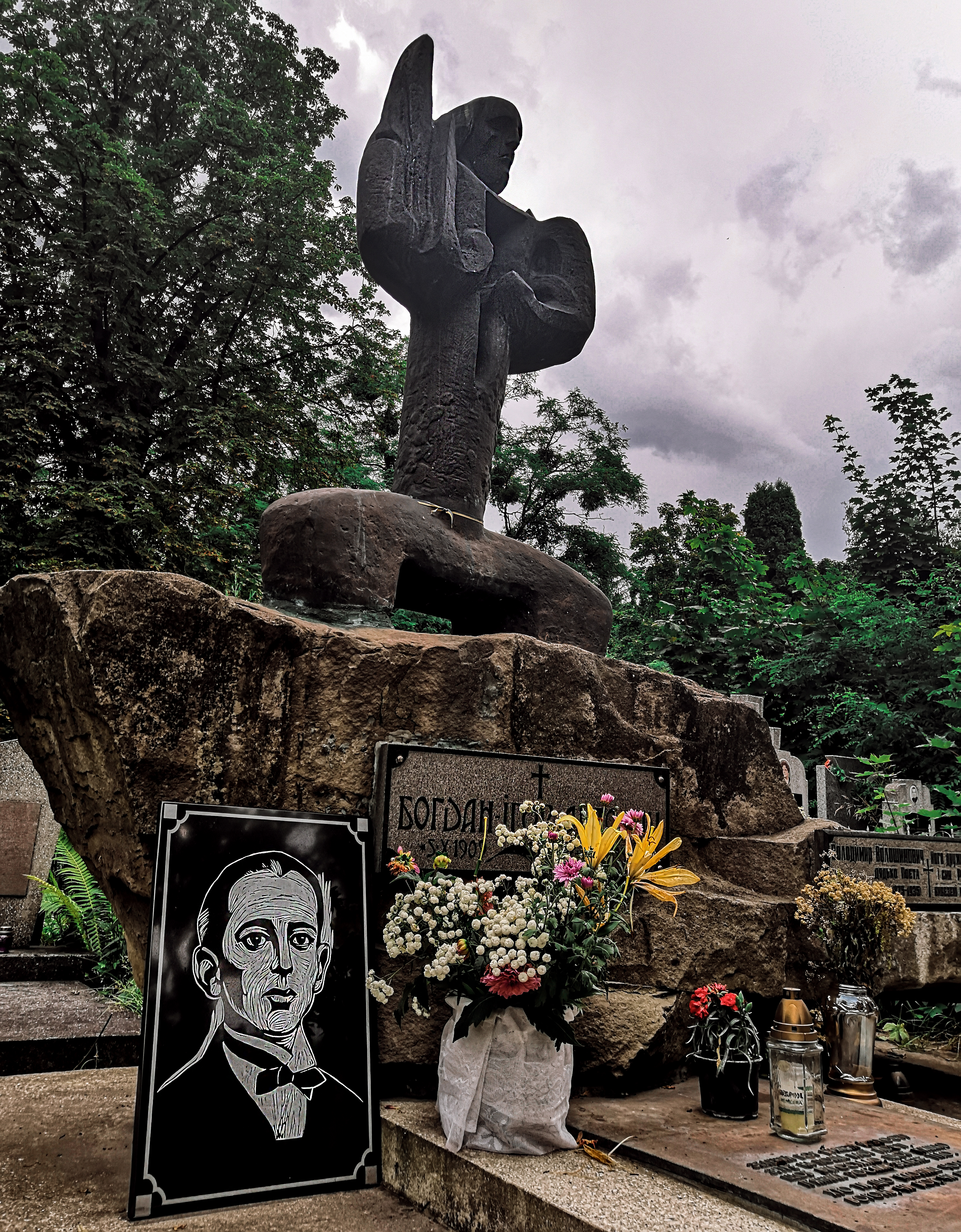 Grave of Bohdan Ihor Antonych at Yanivsky cemetery.